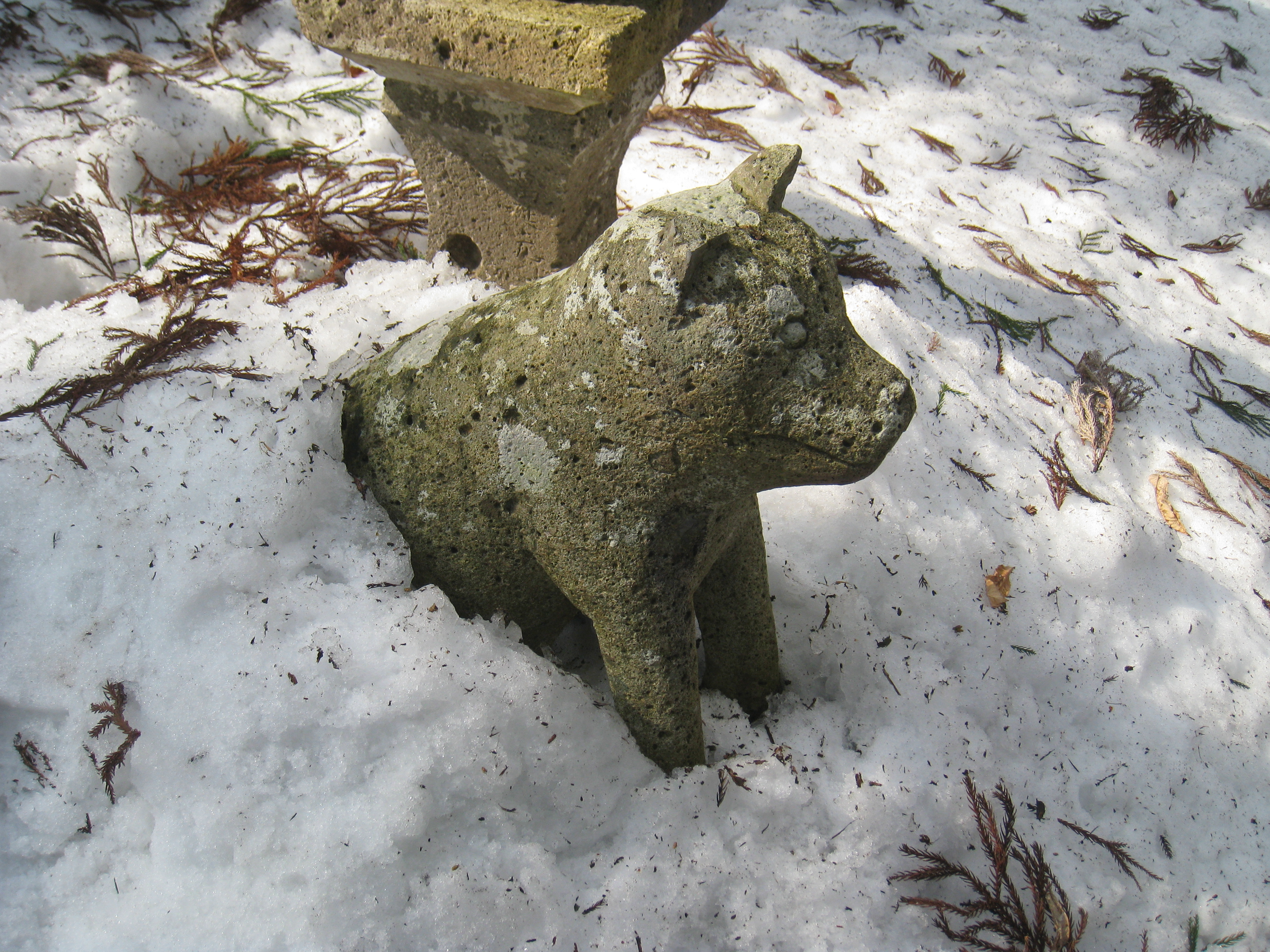 Komainu (lion dog) at the Inu no Miya shrine in Takahata Town, Yamagata Prefecture, Japan